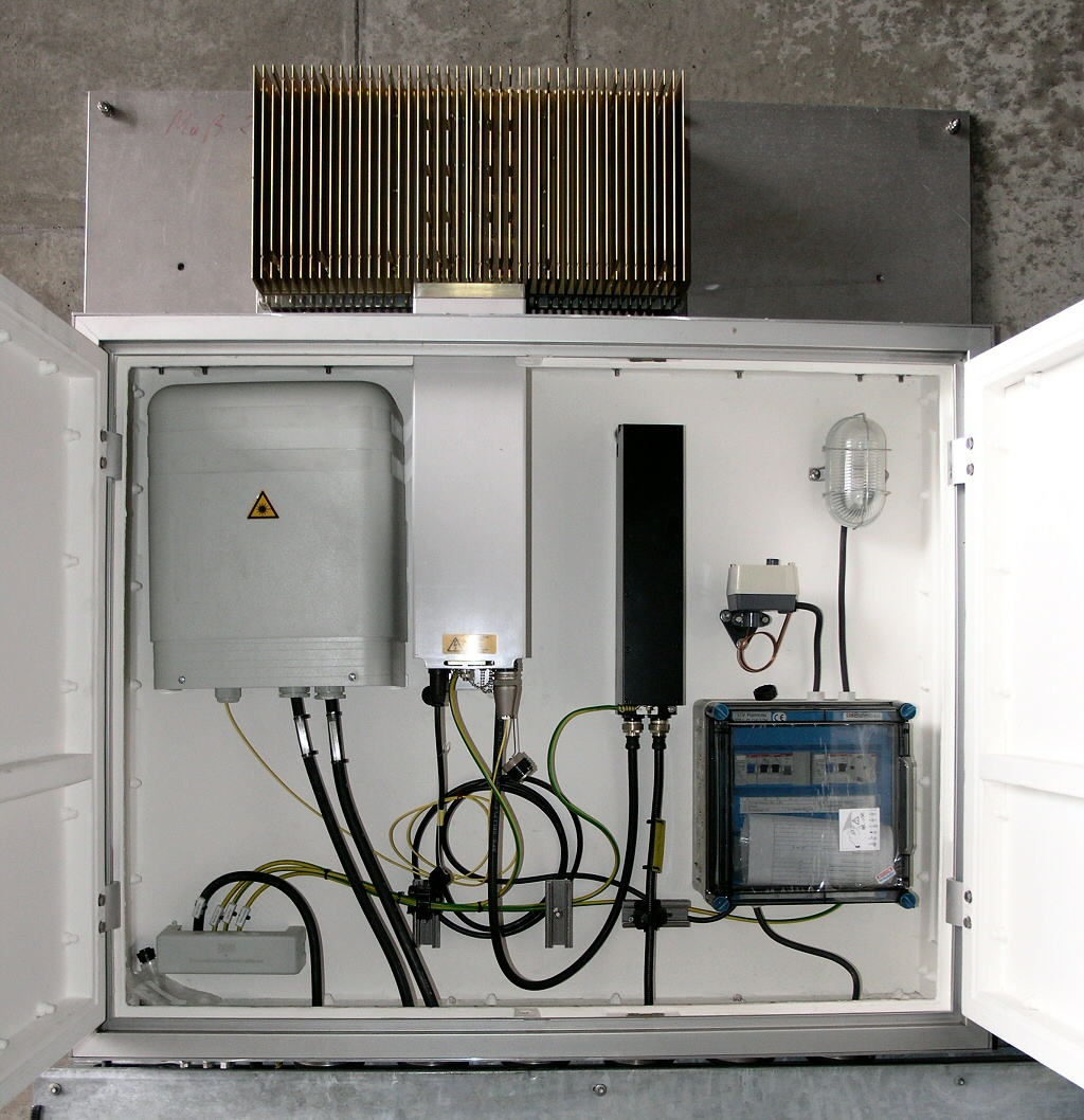 Repeater to provide GSM cell phone coverage in tunnel in Germany. Above left is the splice box for the optical fiber cable, beside it the remote unit that transmits the signal from the optical fiber to the antenna, right beside it a band elimination filter for the R-GSM-volume.